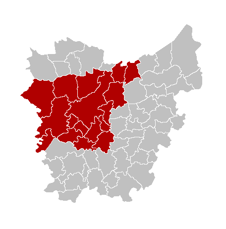 Map of the province East-Flanders, showing Ghent arrondissement in red.